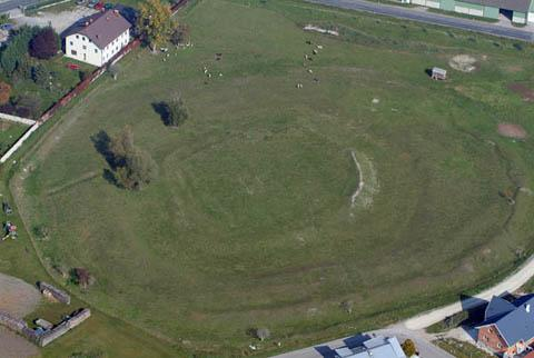 Leithaprodersdorf, Austria, aerialphotography